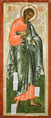 Saint Philip, Russian icon from first quarter of 18th cen.